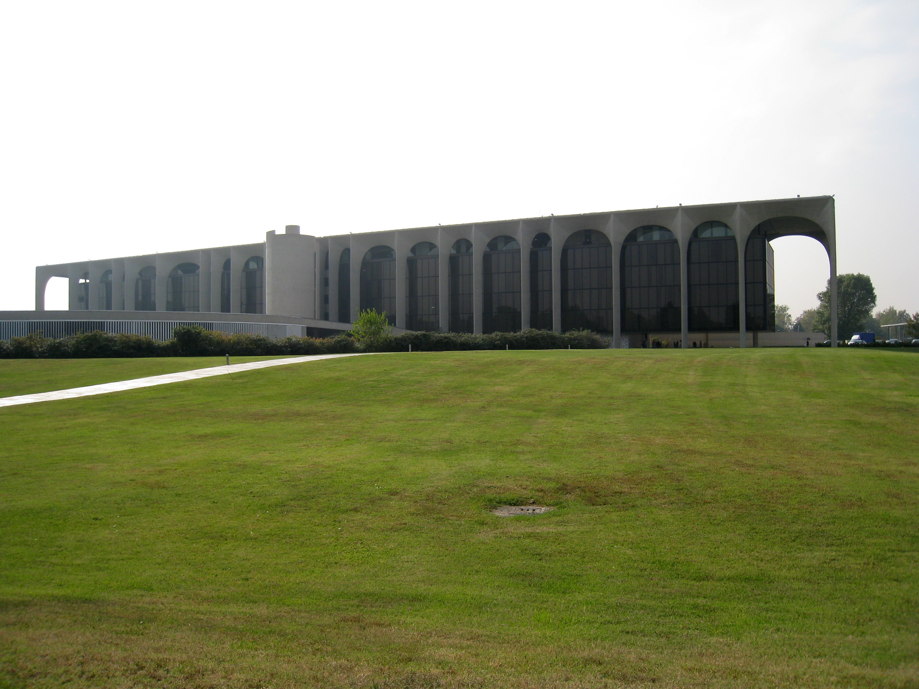 Arnoldo Mondadori Editore company headquarters, as seen from the visitors' parking lot.